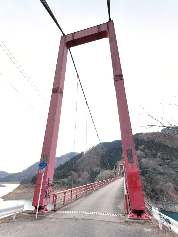 Konpira Bridge and Lake Kanna